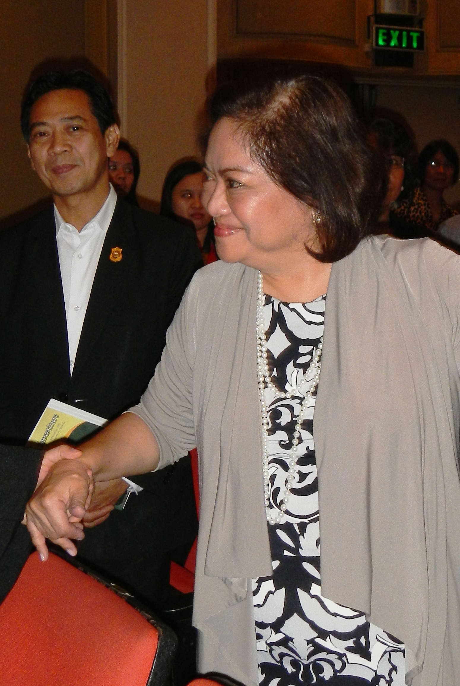 Agnes Devanadera in St. Paul University Manila wedbsite SPUM 9th President, Sr. Ma. Evangeline L. Anastacio, SPC, Solemn Investiture, Installation preceded by Sr. Lilia Thérèse L. Tolentino, SPC, 8th outgoing President of St. Paul University Manila, incumbent Provincial Superior of the Sisters of Sisters of Charity of St. Paul Sisters of St. Paul of Chartres], Philippine Province [1] 680 Pedro Gil Street, Malate, Manila 1004 Manila, Philippines Evangeline Anastacio, [2] - 1912-2012 Centennial Commemorative Historical Marker, 1927 Chapel of the Crucified Christ (St. Paul University Manila) South Manila Inter-Institutional Consortium.